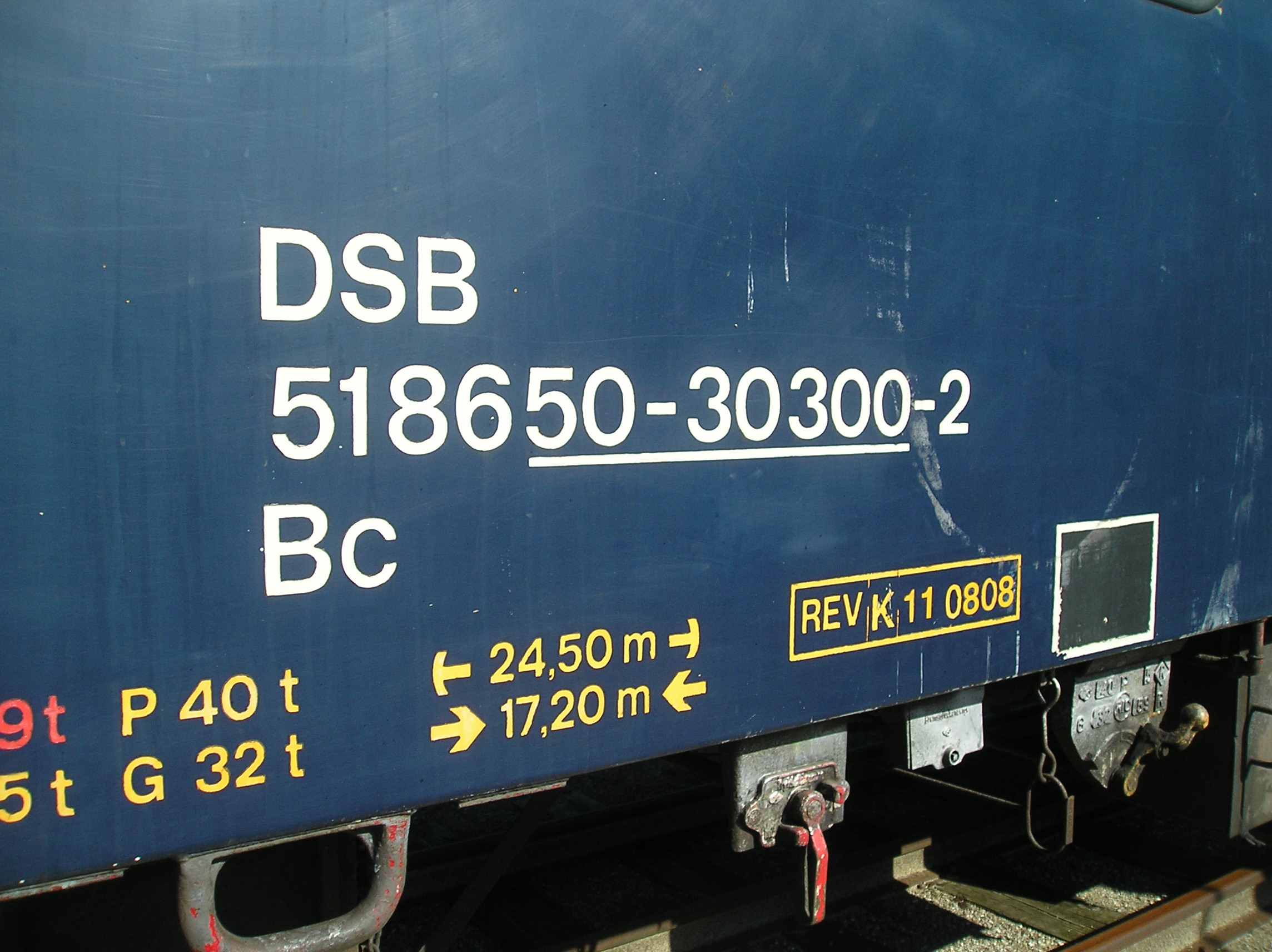 Litra of couchette carriage DSB Bc 51 86 50 30 300-2 at Danmarks Jernbanemuseum.